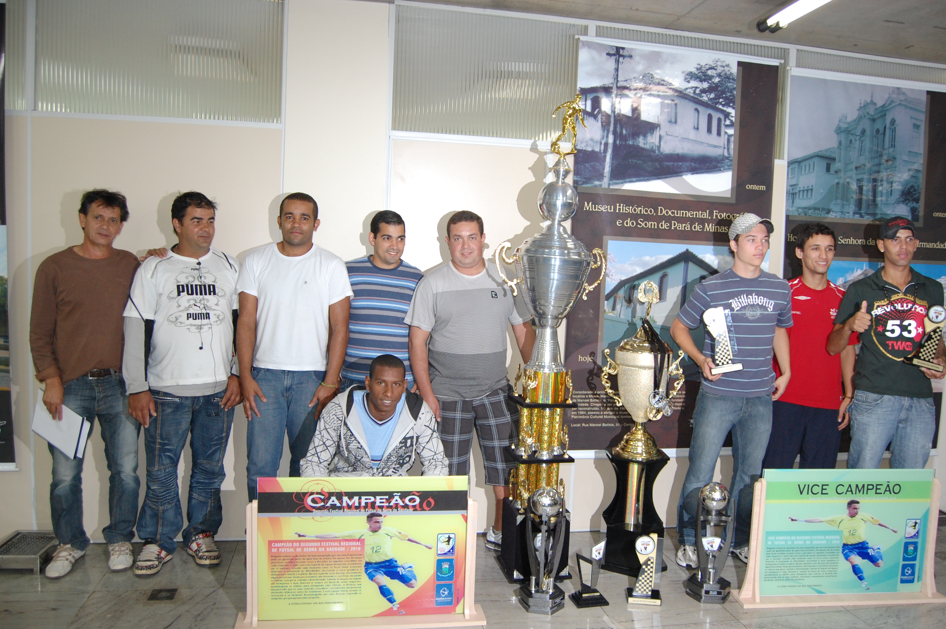 Vilense, Regional Champion in the city of Serra da Saudade 2010